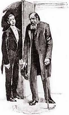 Illustration of the Sherlock Holmes short story The Boscombe Valley Mystery, which appeared in The Strand Magazine in October, 1891. Original caption was "MR. JOHN TURNER," SAID THE WAITER.